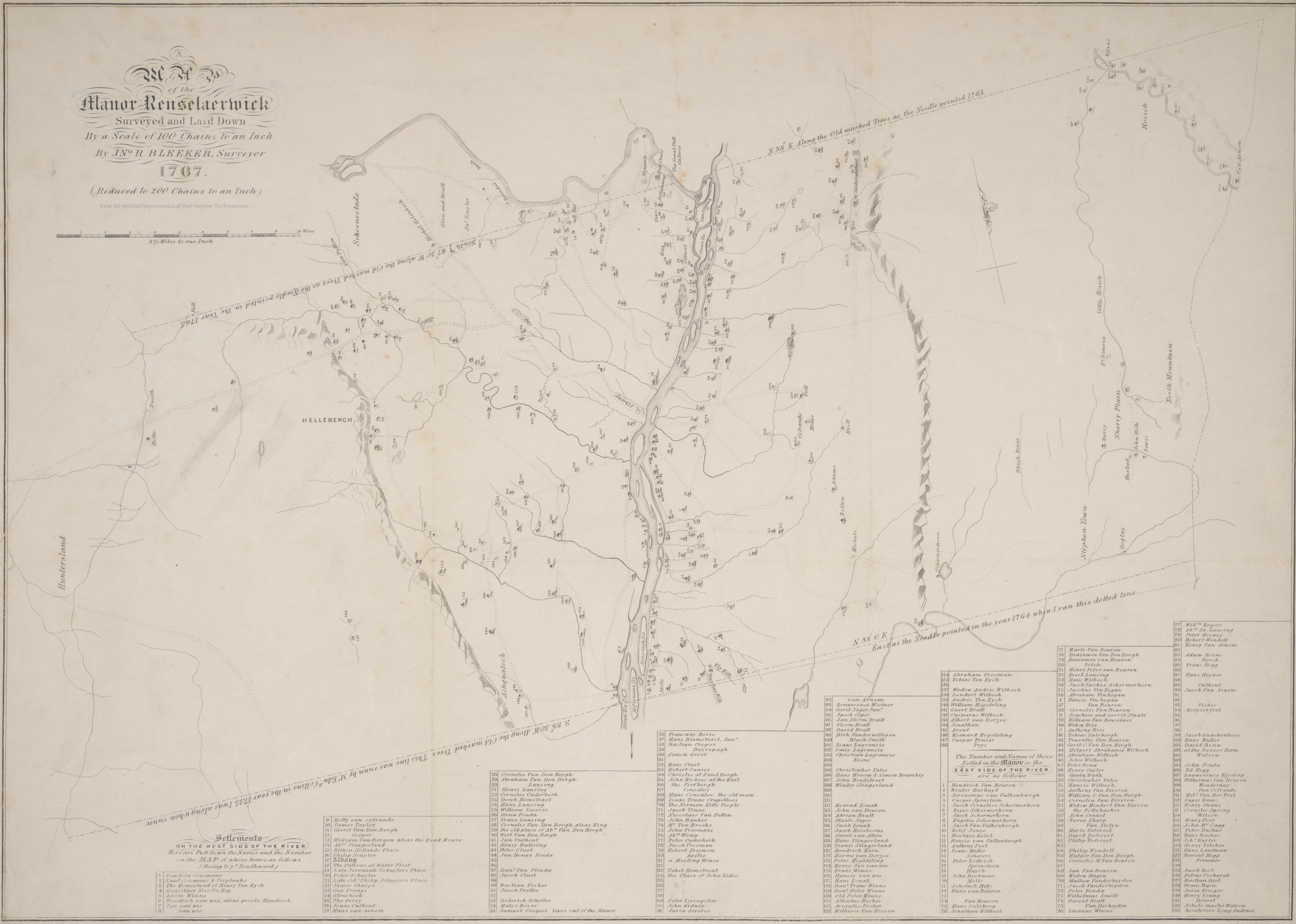 1767 map of the Manor of Rensselaerswyck made at the request of Stephen van Rensselaer III showing location of tenants and land owners at the time, scale of 100 chains to an inch: the original was engraved and published by J. E. Gavit in New Haven, Connecticut, in 1767; this is a copy by David Vaugnam (fl. 1849–64) and held in the New York State Library under call number (74742) 1767 205-3216.